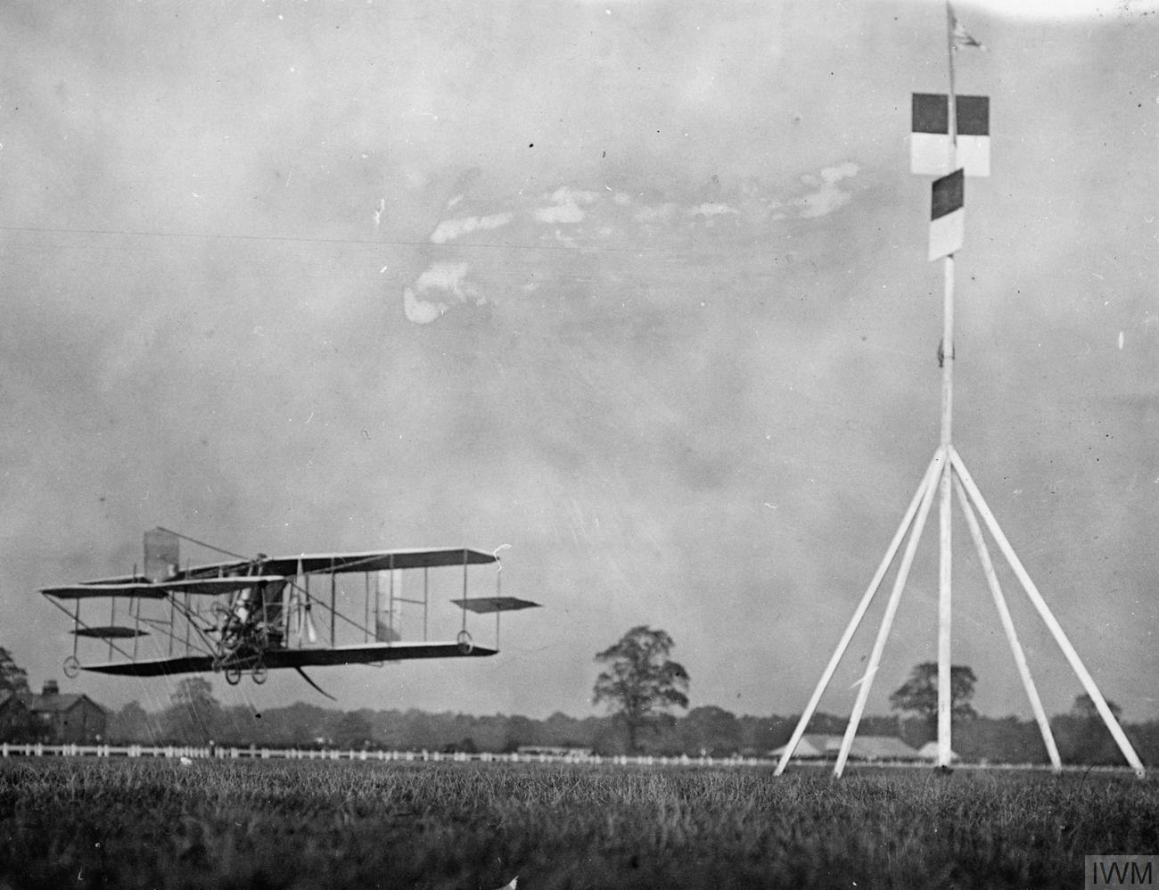 Aviation in Britain Before the First World War- the work of Samuel Franklin Cody in Airship, Kite and Aircraft Aeronautics 1903 - 1913 Cody Aircraft Mark IC (nicknamed Cathedral), with S F Cody at the controls, passes a marker post at the 1909 Doncaster Aviation Meeting, the first organised aviation meeting in Britain. Shortly after the photograph was taken, the aircraft crashed when its undercarriage became caught in a ditch. However it only sustained minor damage. S F Cody became a British citizen during an elaborate ceremony staged at this meeting in order to be able to enter a number of flying competitions which were only open to British entrants.